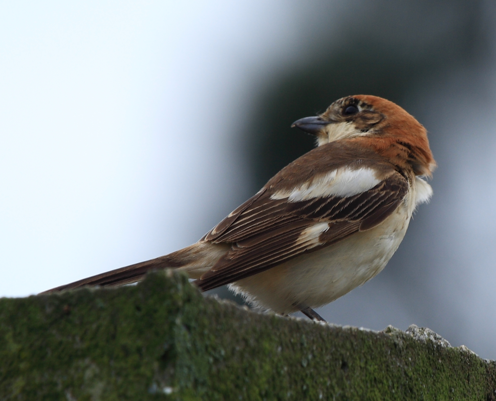 Woodchat-Shrike (Lanius senator)